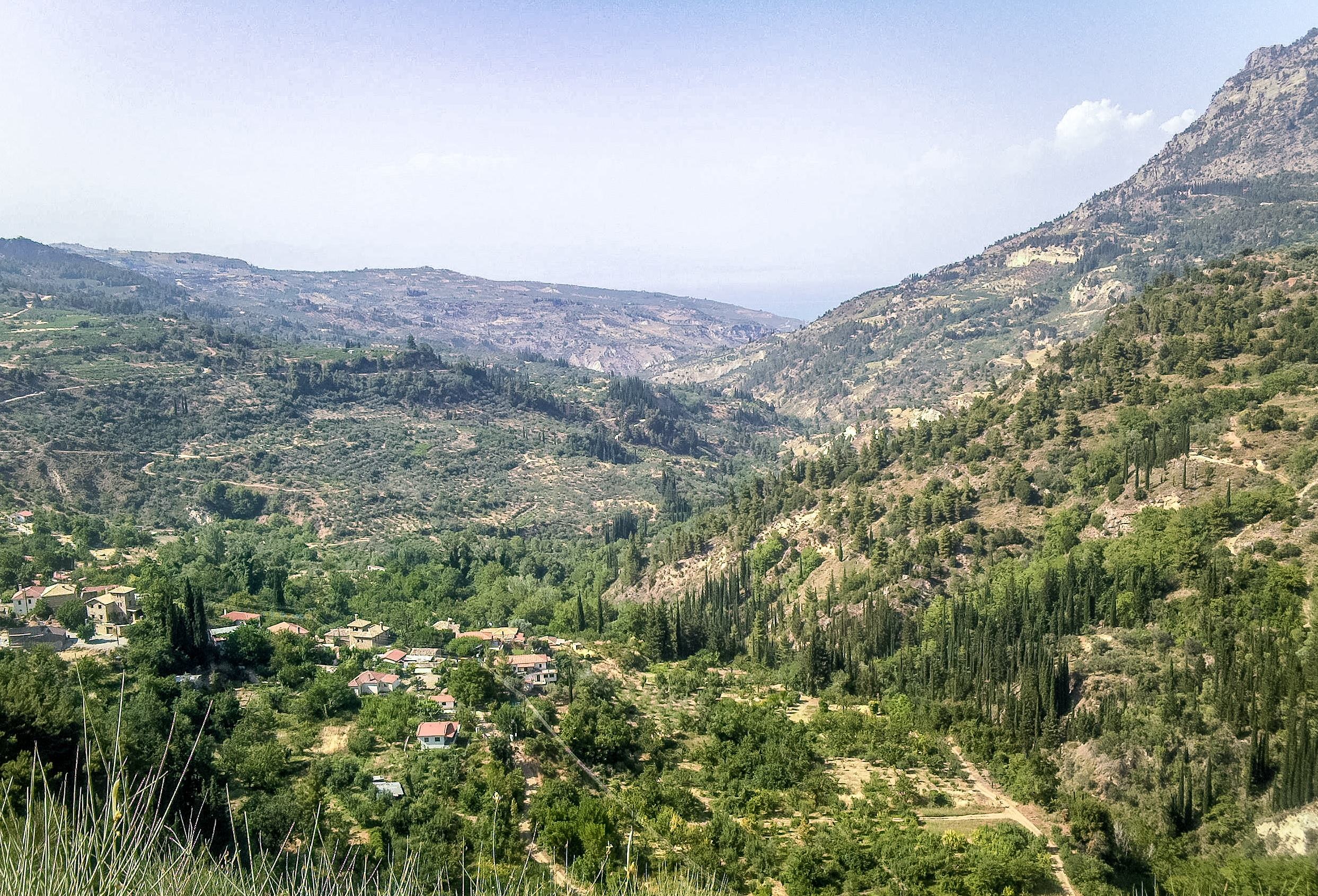 Sinevro village, Achaia, Greece. View from above.